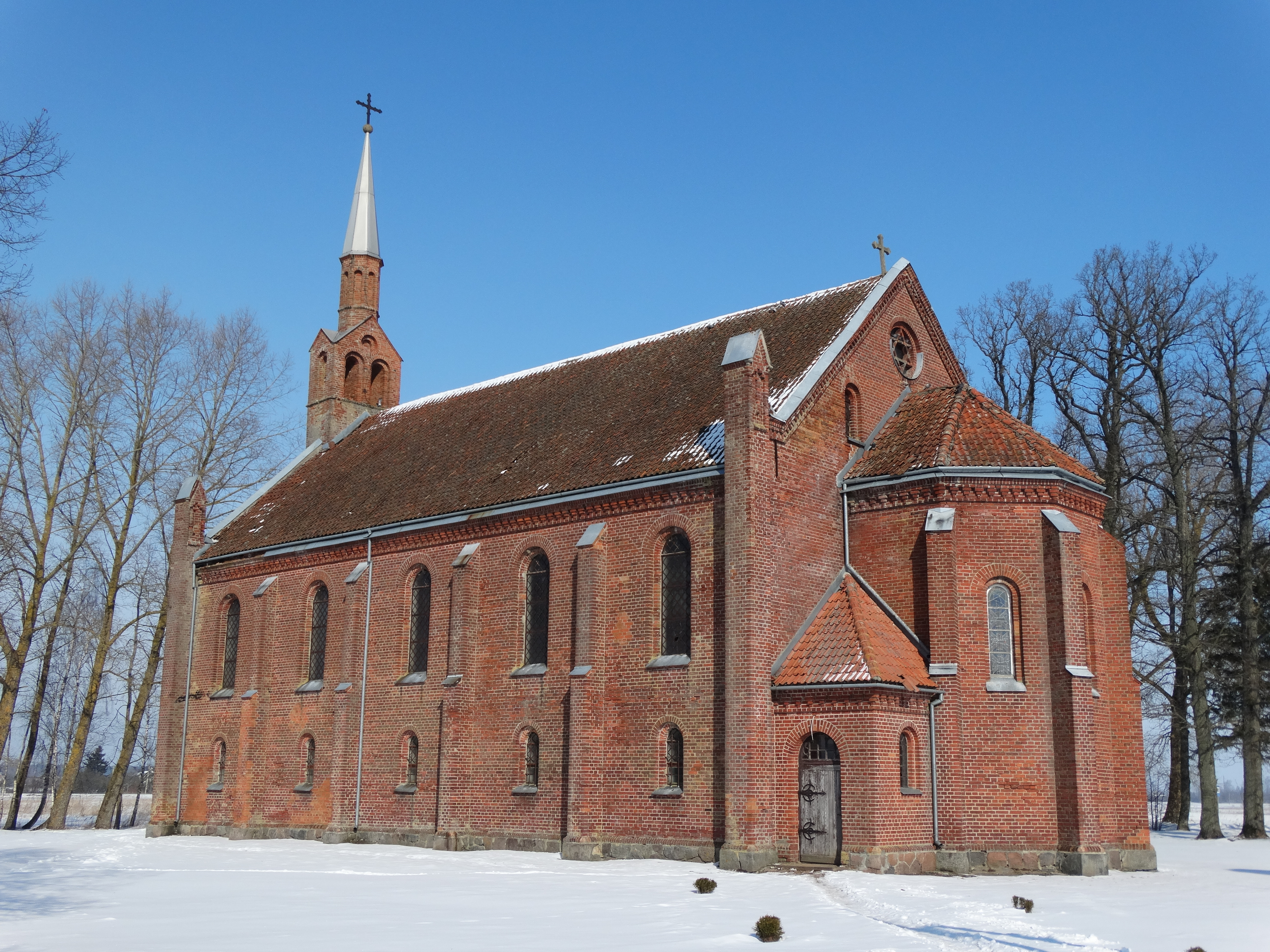 Lutheran Church, Vyžiai, Šilutė district, Lithuania